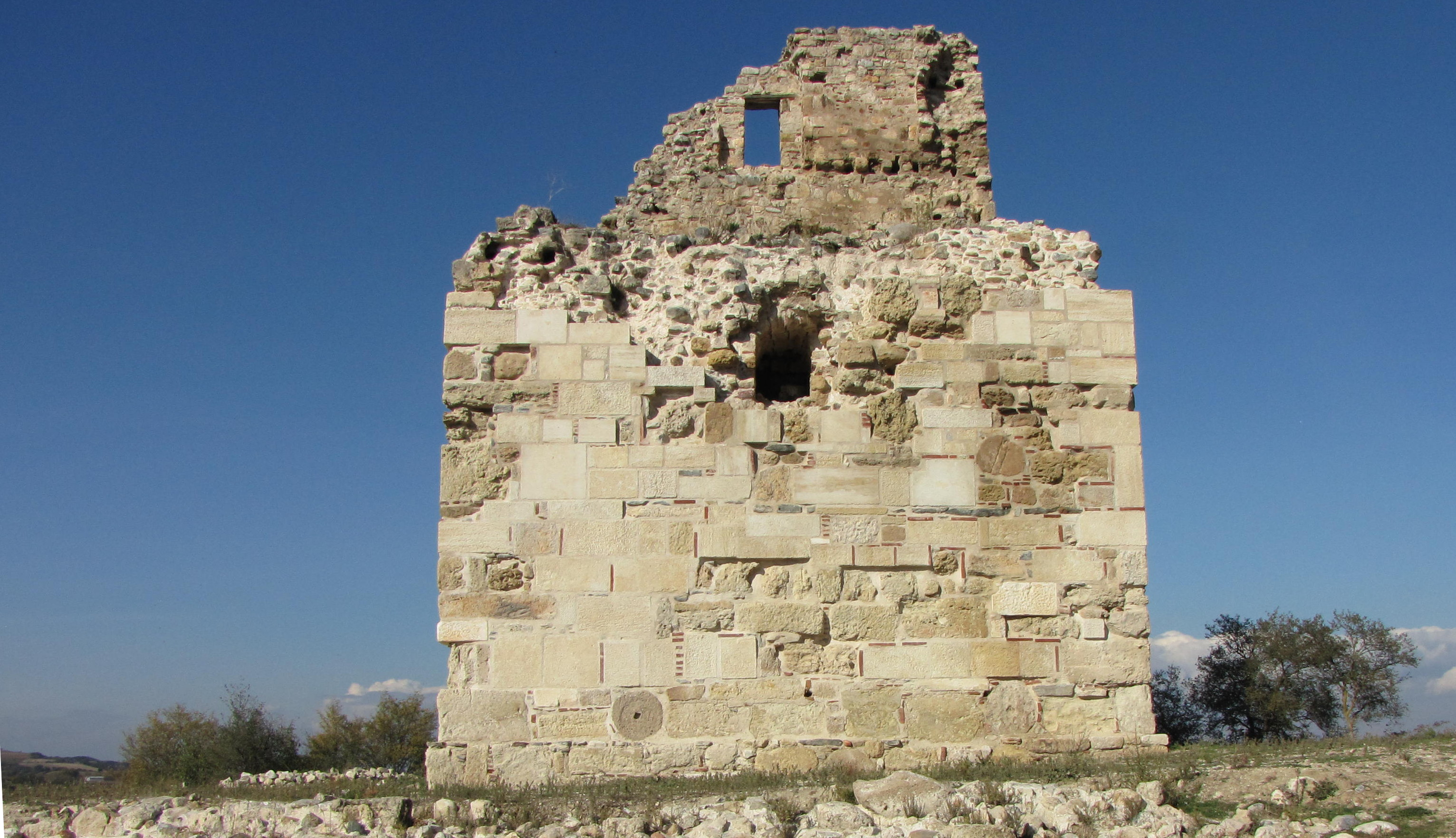 Amphipolis Marmarion